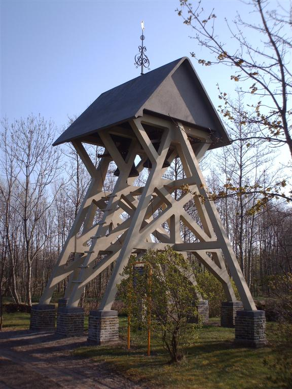 bell tower in Gersloot, Friesland, Netherlands